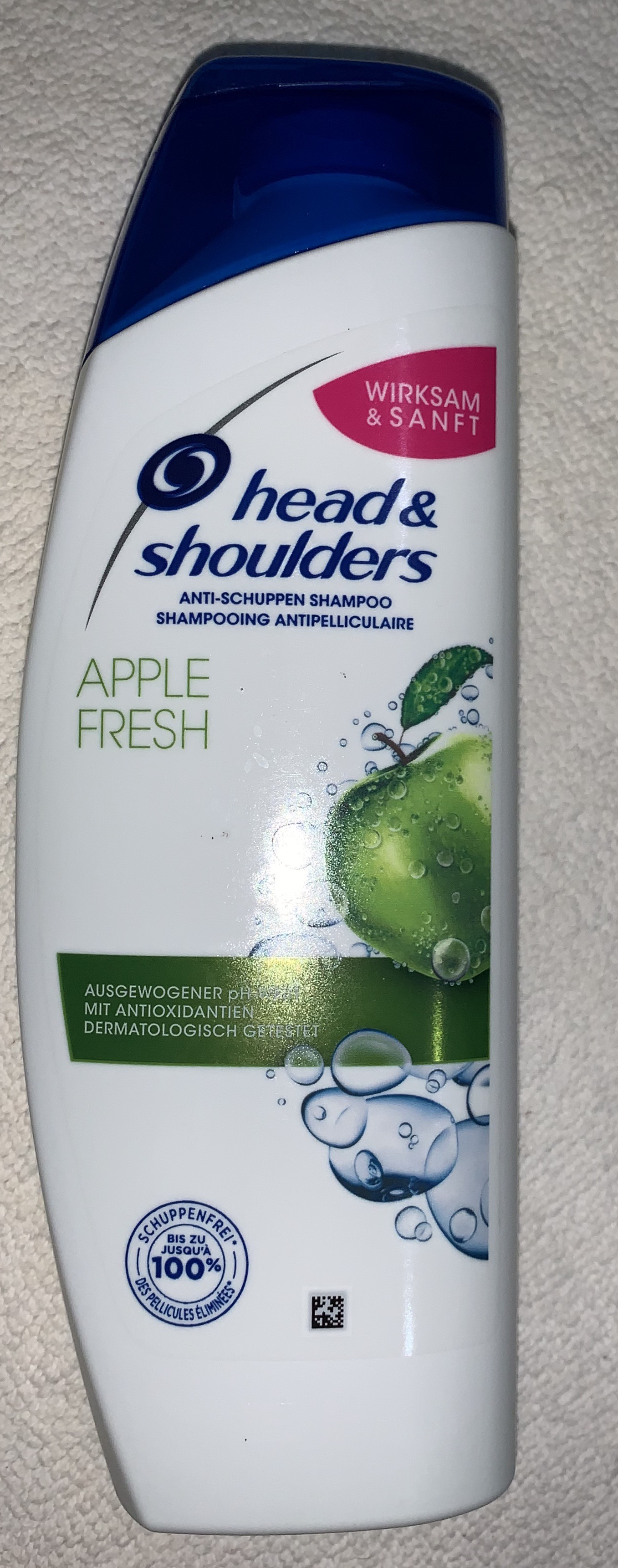 Here we can see a shampoo called Head and Shoulders in the Style Apple Fresh